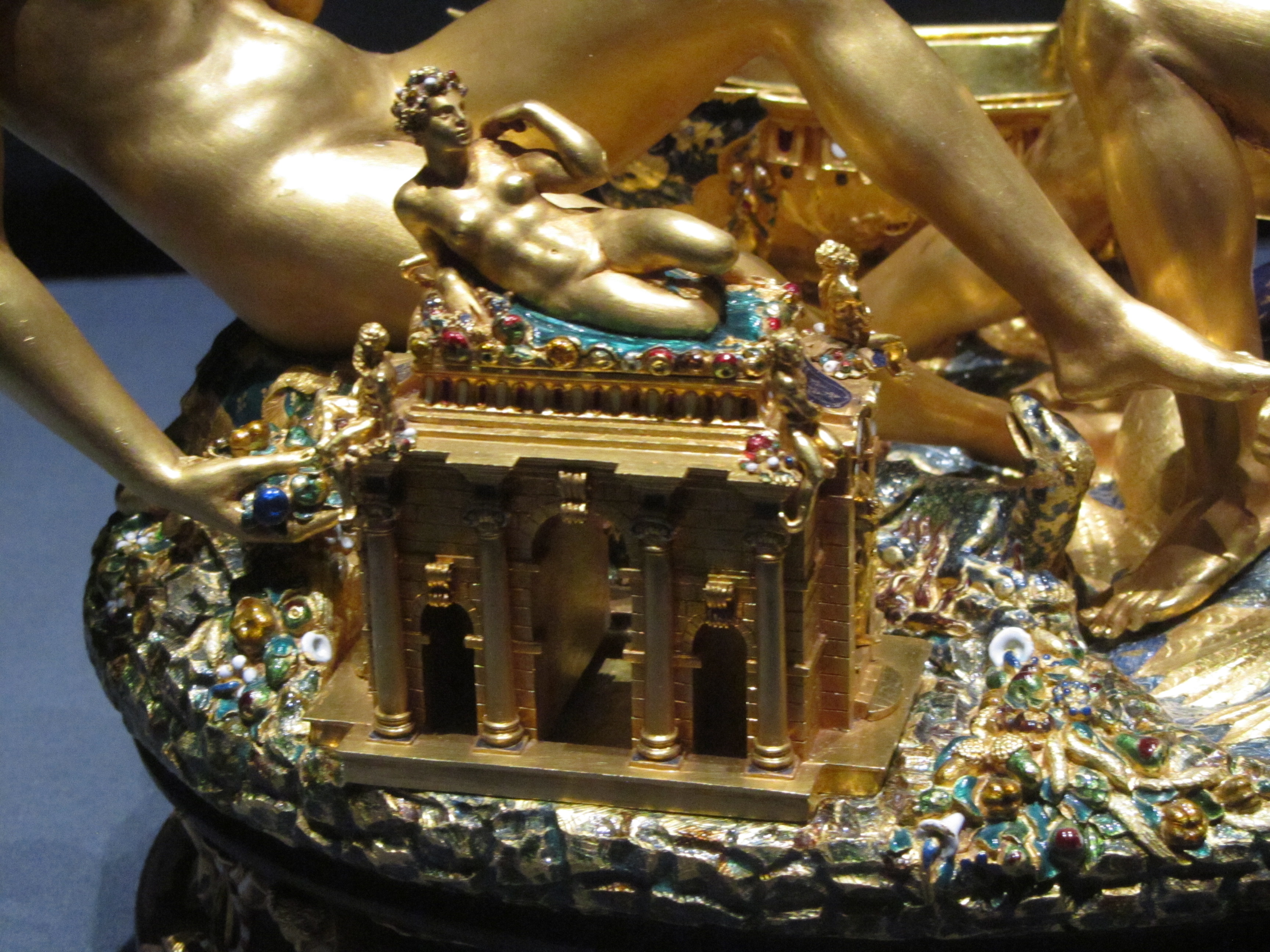 Saliera von Benvenuto Cellini (Paris, 1540–1543) Zoom-Foto from the front with little Temple for the pepper